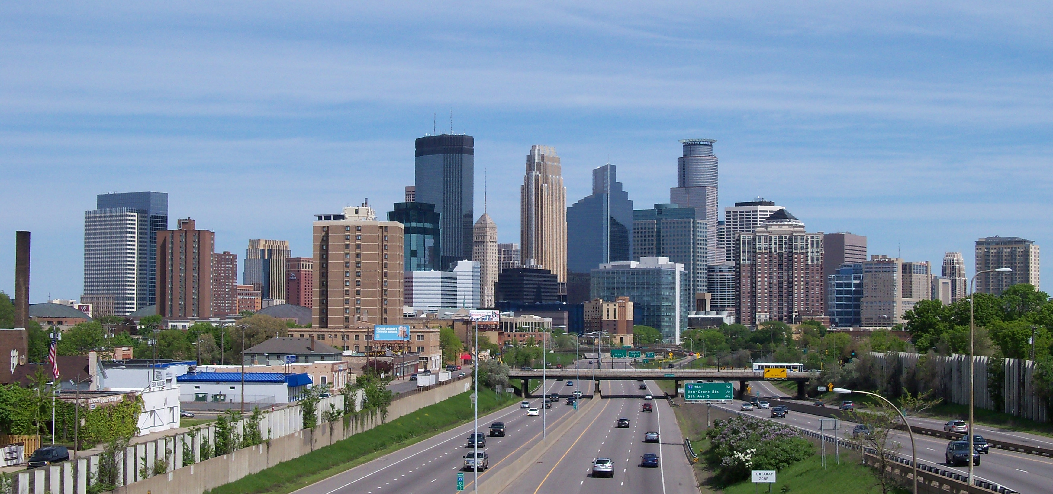 Dowtown Minneapolis, Minnesota, USA from the south.